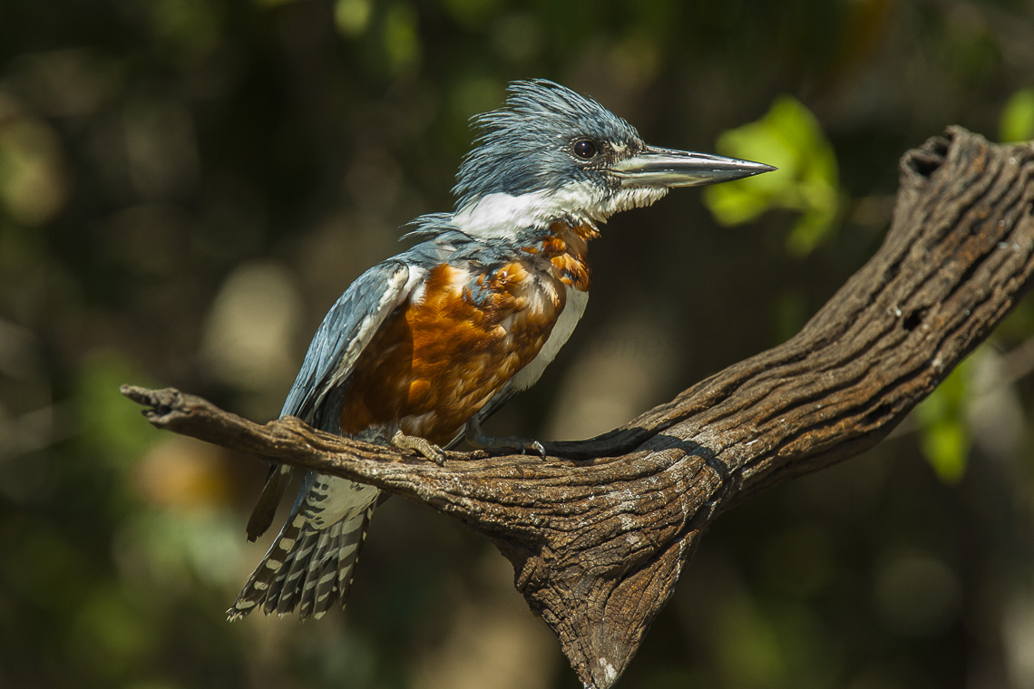 Ringed Kingfisher - Panatanl_H8O0655